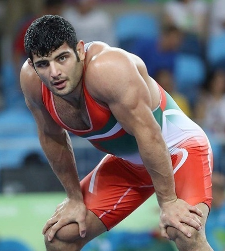 2016 Summer Olympics, Men's Freestile Wrestling 86 kg